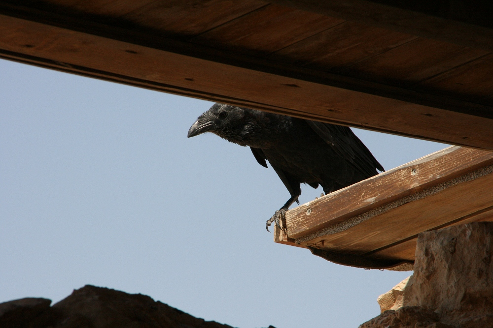 A fan-tailed raven (Corvus rhipidurus) in Masada, Westbank (Israel)